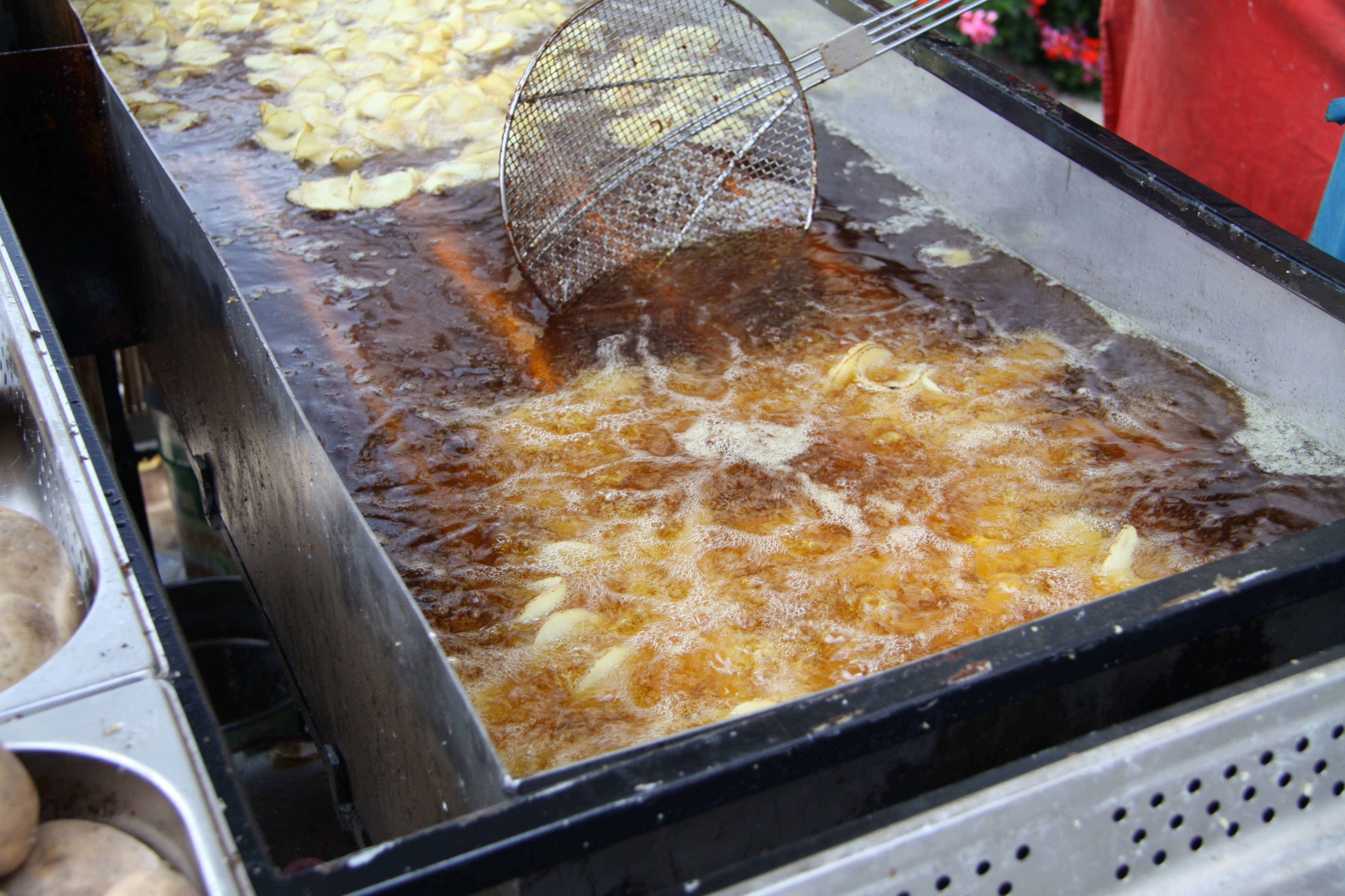 Process of production of homemade chips, Czech Republic. Cutted slices of potatoes are immersed to hot oil. They are fried there for several minutes.